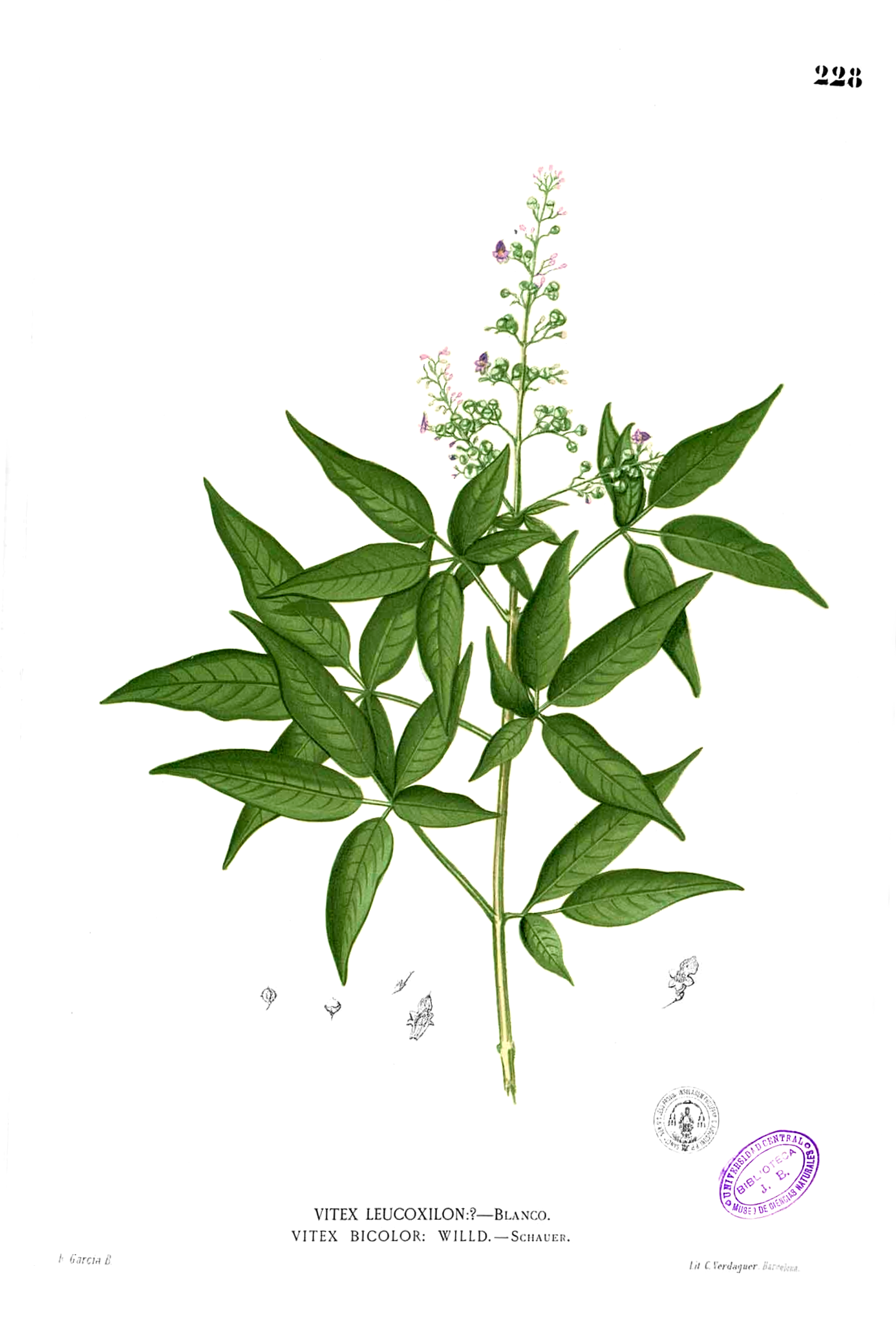 Plate from book